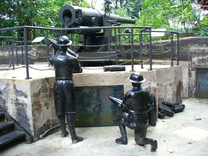 A gun emplacement of Fort Pasir Panjang, Singapore, with figures of gunners loading it. This is a QF 6-inch Mk II gun. The Breech mechanism is missing.